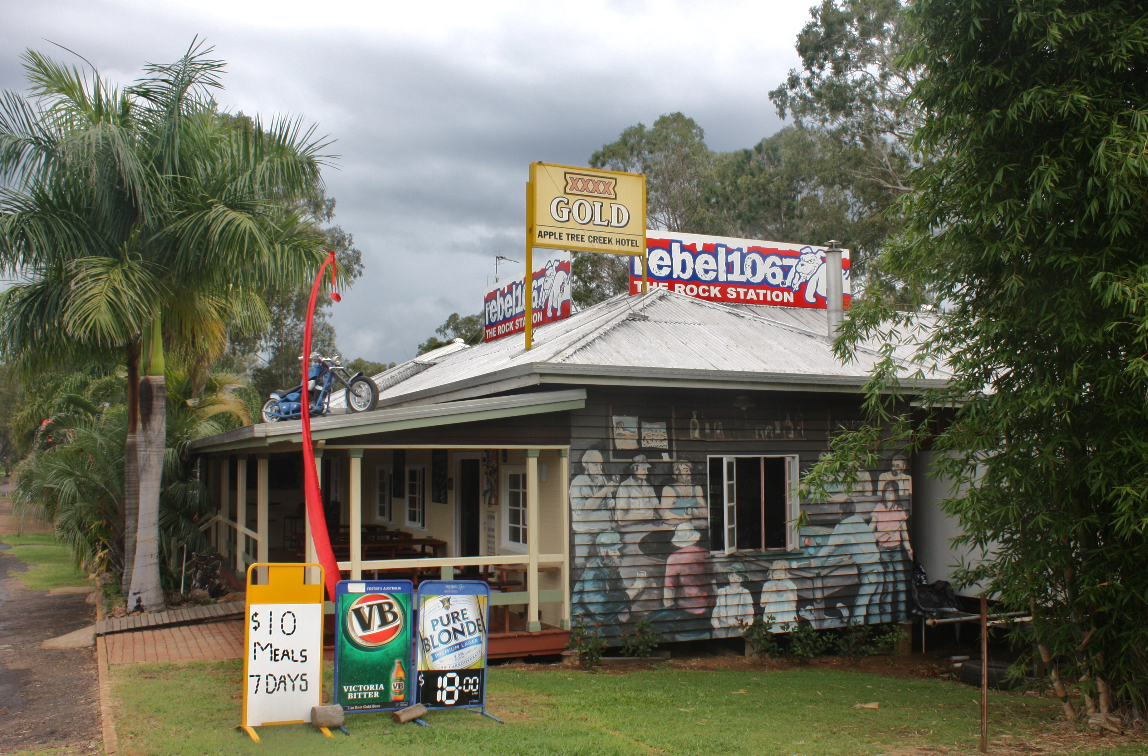 Bruce Highway, Apple Tree Creek.